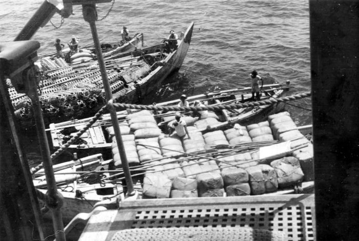 Proas bringing bales of rubber to the KPM ship 'Kalianget' in the harbour of Buleleng, Bali.